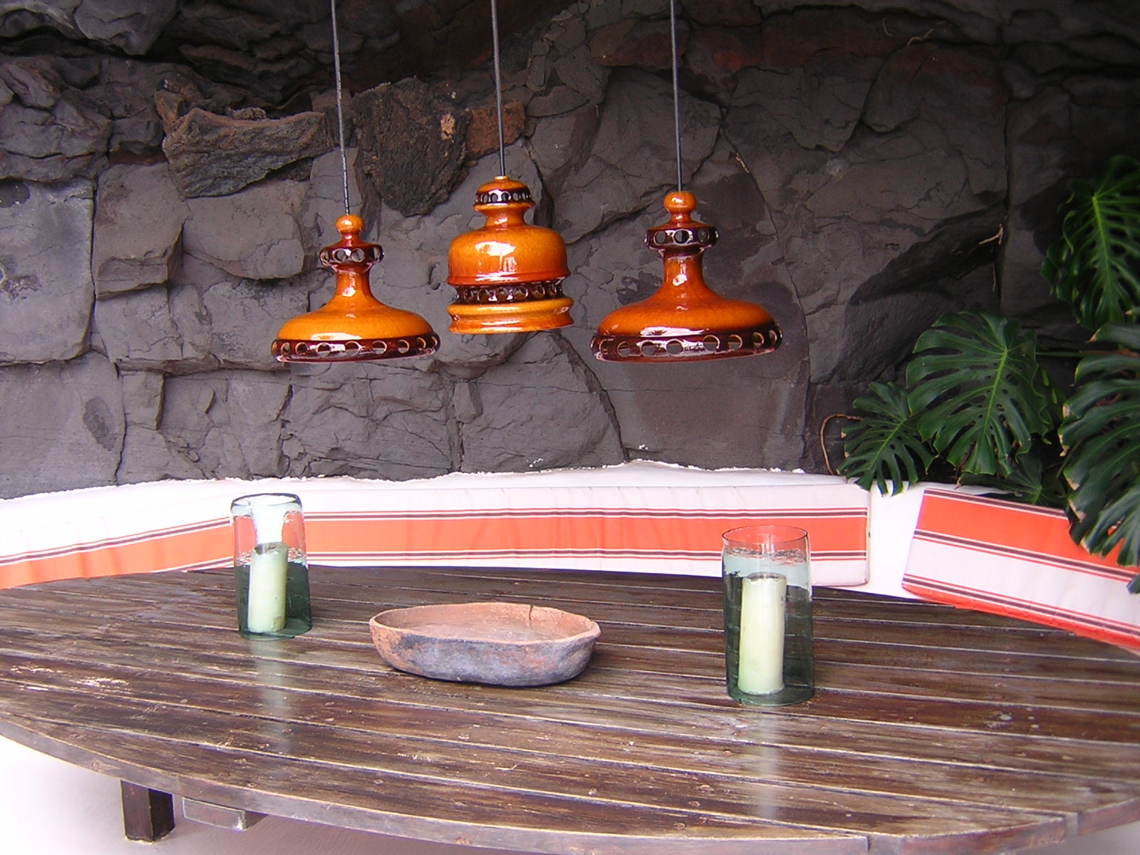 I took this photograph myself whilst visiting Fundación César Manrique on August 22, 2006. Mikay 12:11, 2 September 2006 (UTC)